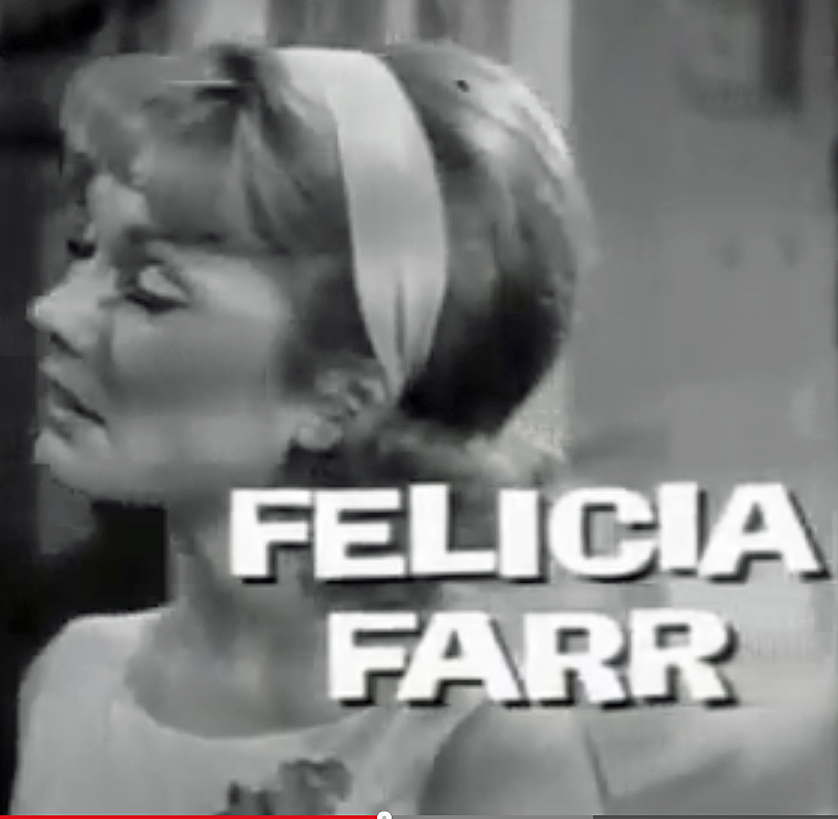 Felicia Farr in trailer for "Kiss Me, Stupid" (1964)